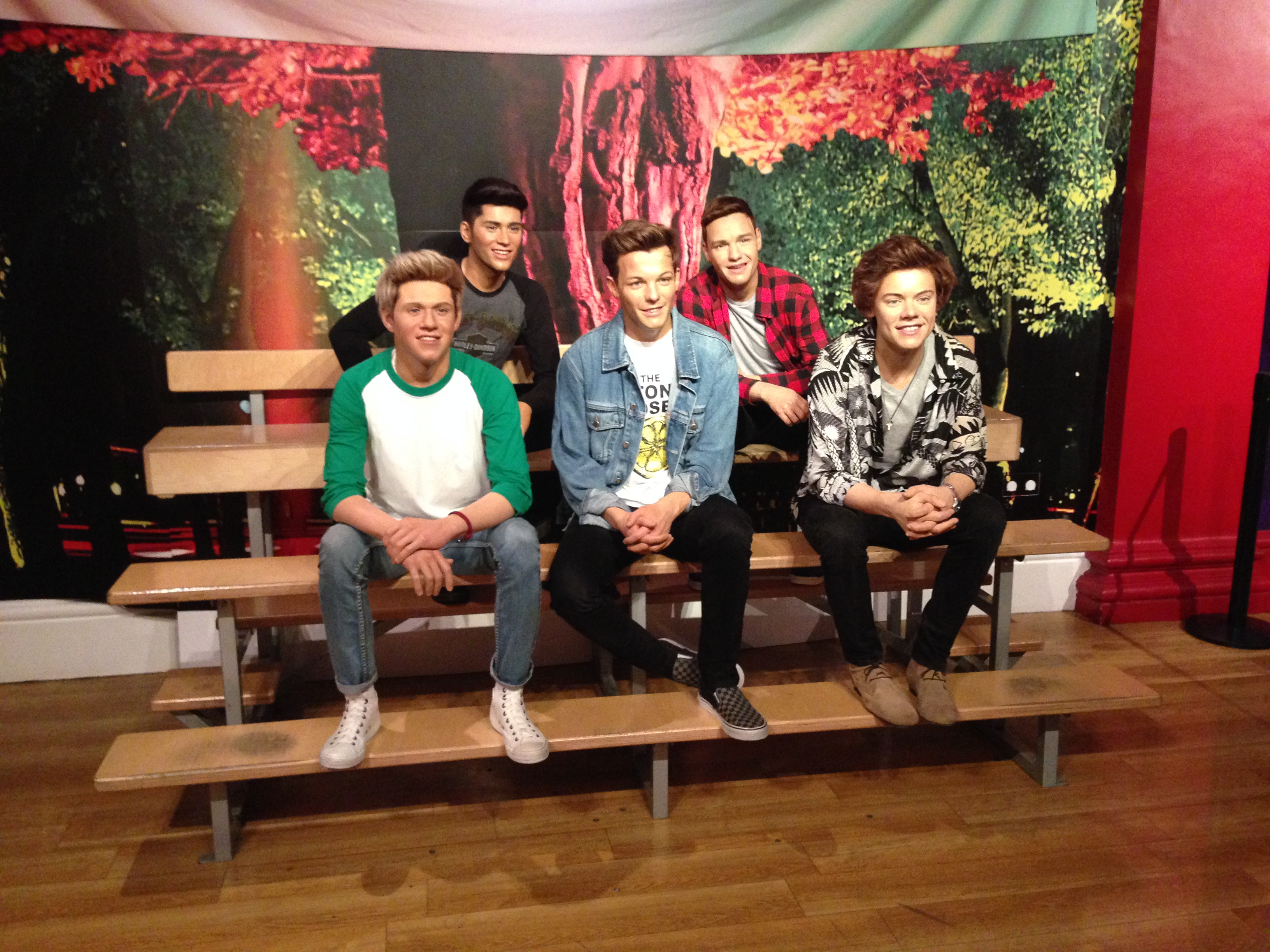 One Direction at Madame Tussauds London - November 1st, 2016